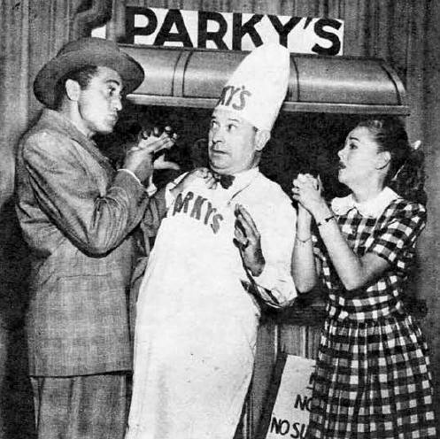 Photo of the Harry Parke radio program Meet Me at Parky's. From left-Sheldon Leonard, Harry Parke as Parky, and Betty Rhodes. Parke played the character Parkyakarkus on the Eddie Cantor Show before moving to his own radio show on Mutual Broadcasting.